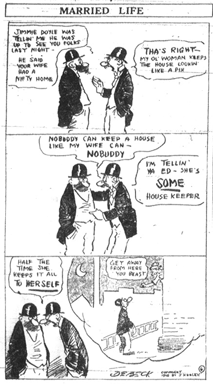 Married Life newspaper comic strip for 6 May 1918 by Billy DeBeck